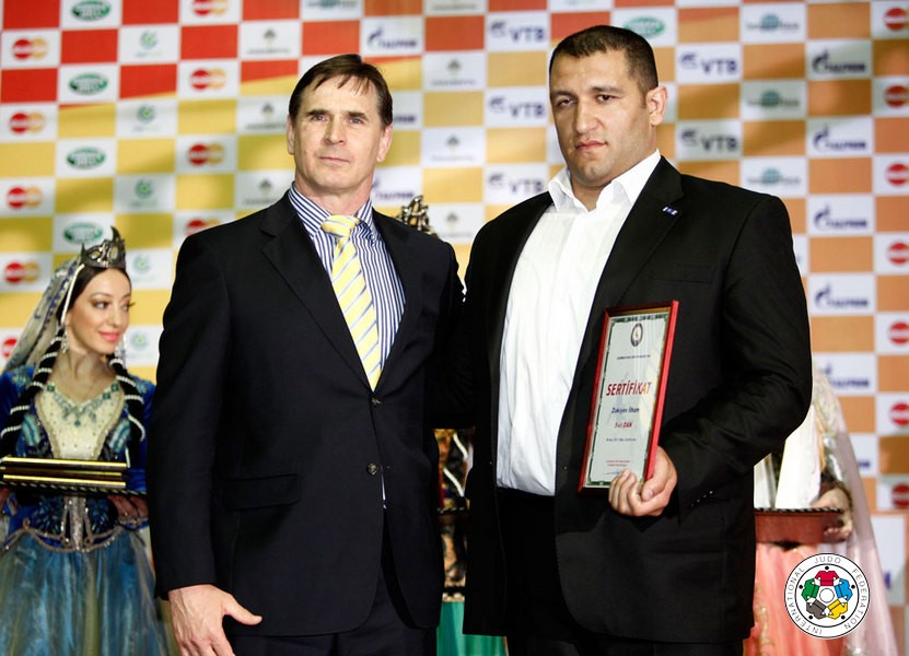 Famous Azerbaijani judoka Ilham Zakiyev and IJF Head Sports Director, Vladimir Barta